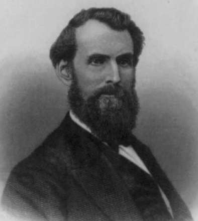 George Washington Whitmore, Texas Congressman